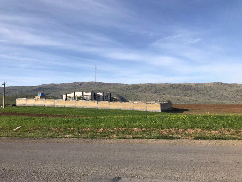 پاسگاه مرزبانی